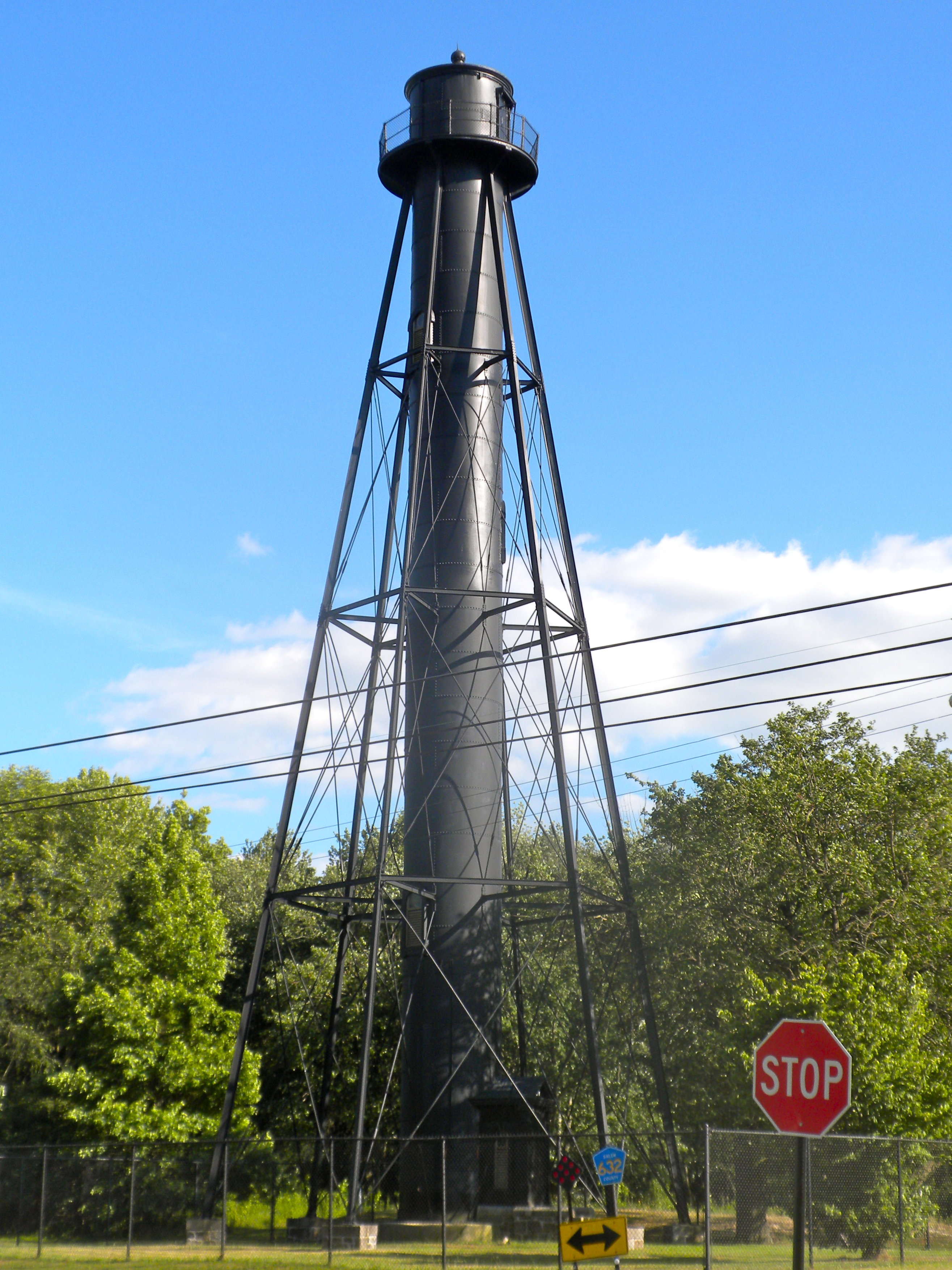 Finn's Point Rear Range Light on NRHP since August 30, 1978. NW of Salem at Fort Mott and Lighthouse Rds. near Salem, New Jersey